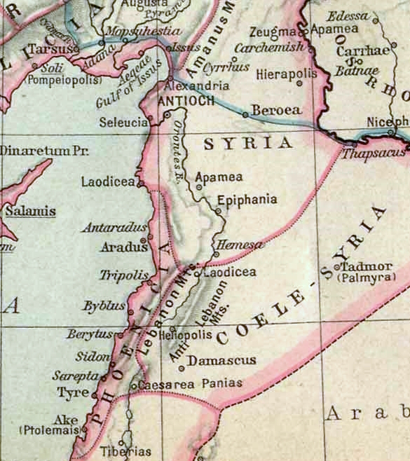 A map of Syria under Roman control.